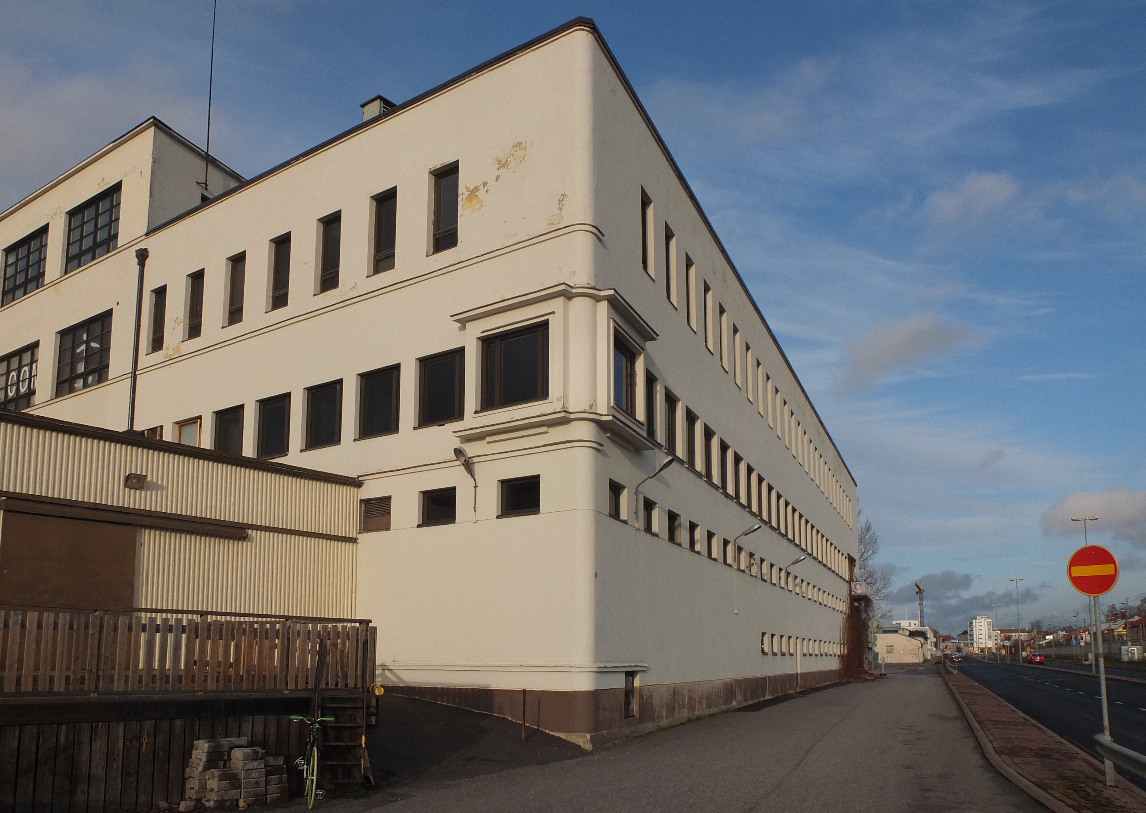 Former Unilever (Turun Saippua Oy) soap factory in Turku, Finland, now known as SaippuaCenter, housing various businesses. Architect Albert Richardtson, circa 1940.